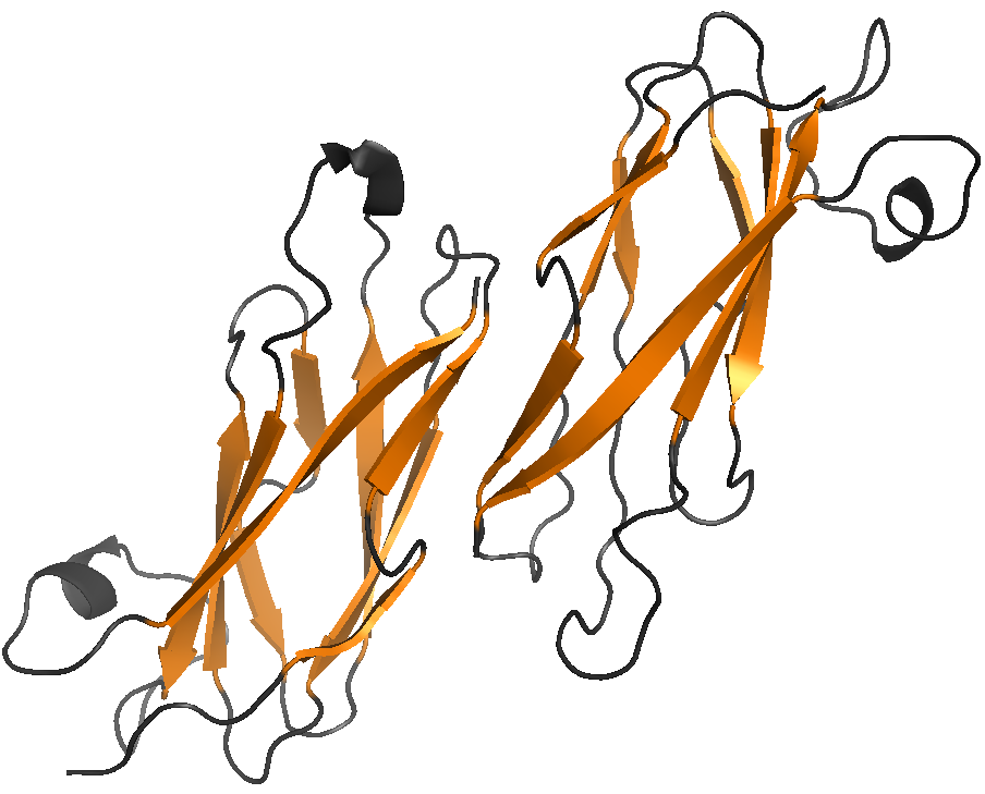 A structure of MSP dimer. Structure file was taken from PDB (ID: 1MSP) and the picture made with PyMOL.